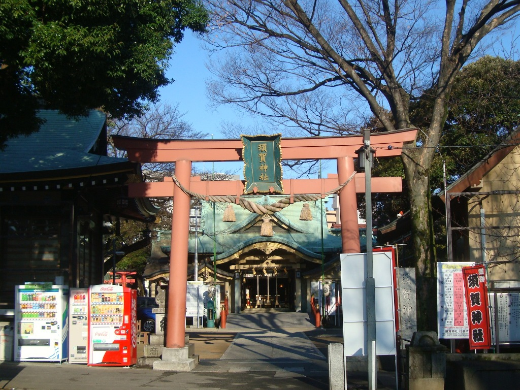 Suga Jinjya shrine, Yotsuya, Tokyo